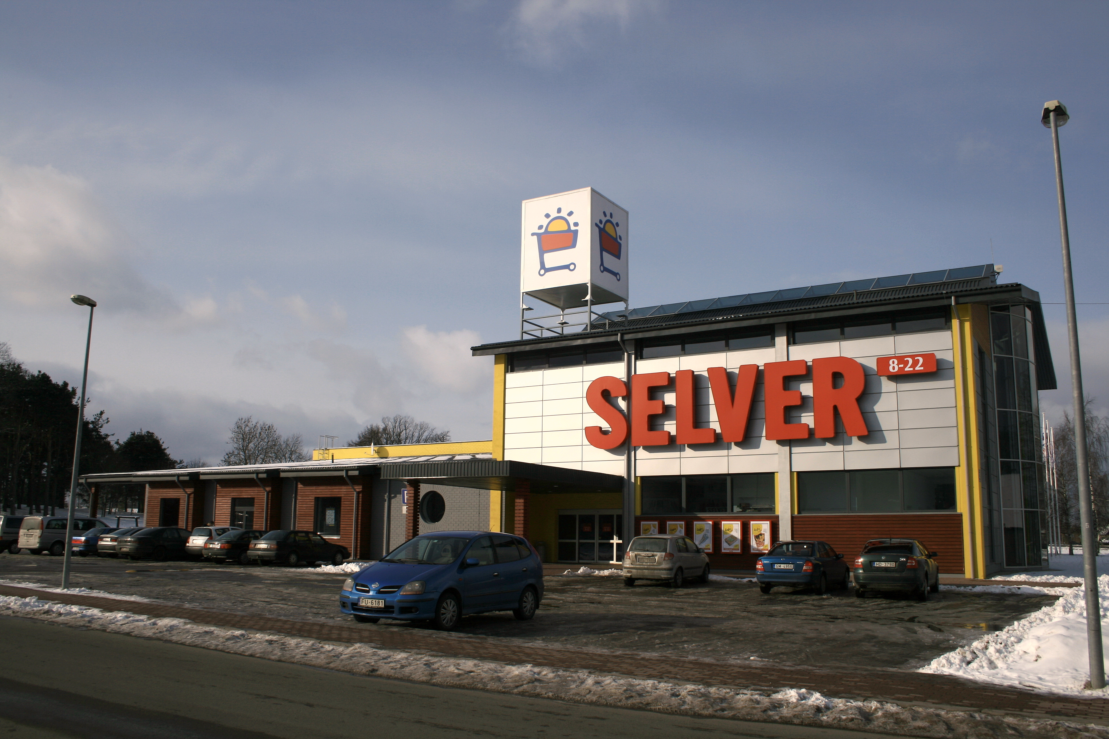 Kuldiga "Selver".